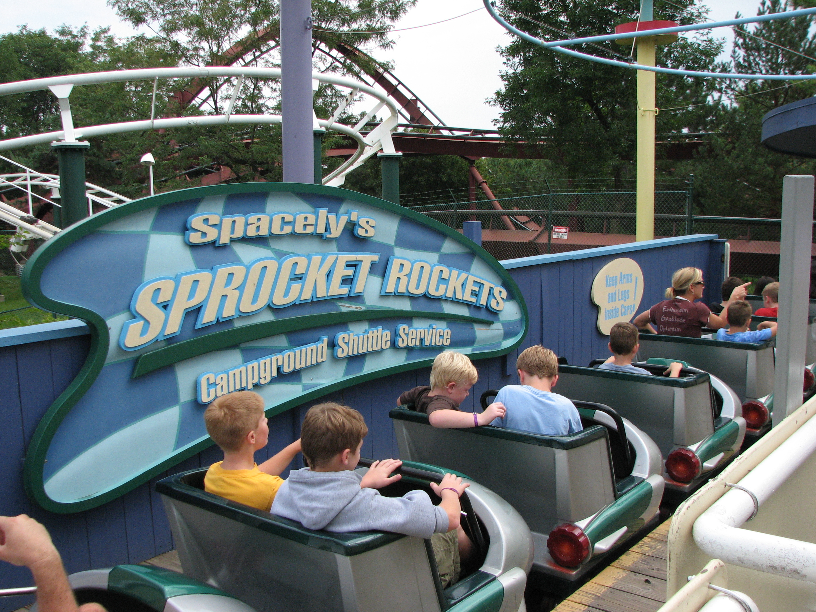 Spacely's Sprocket Rockets